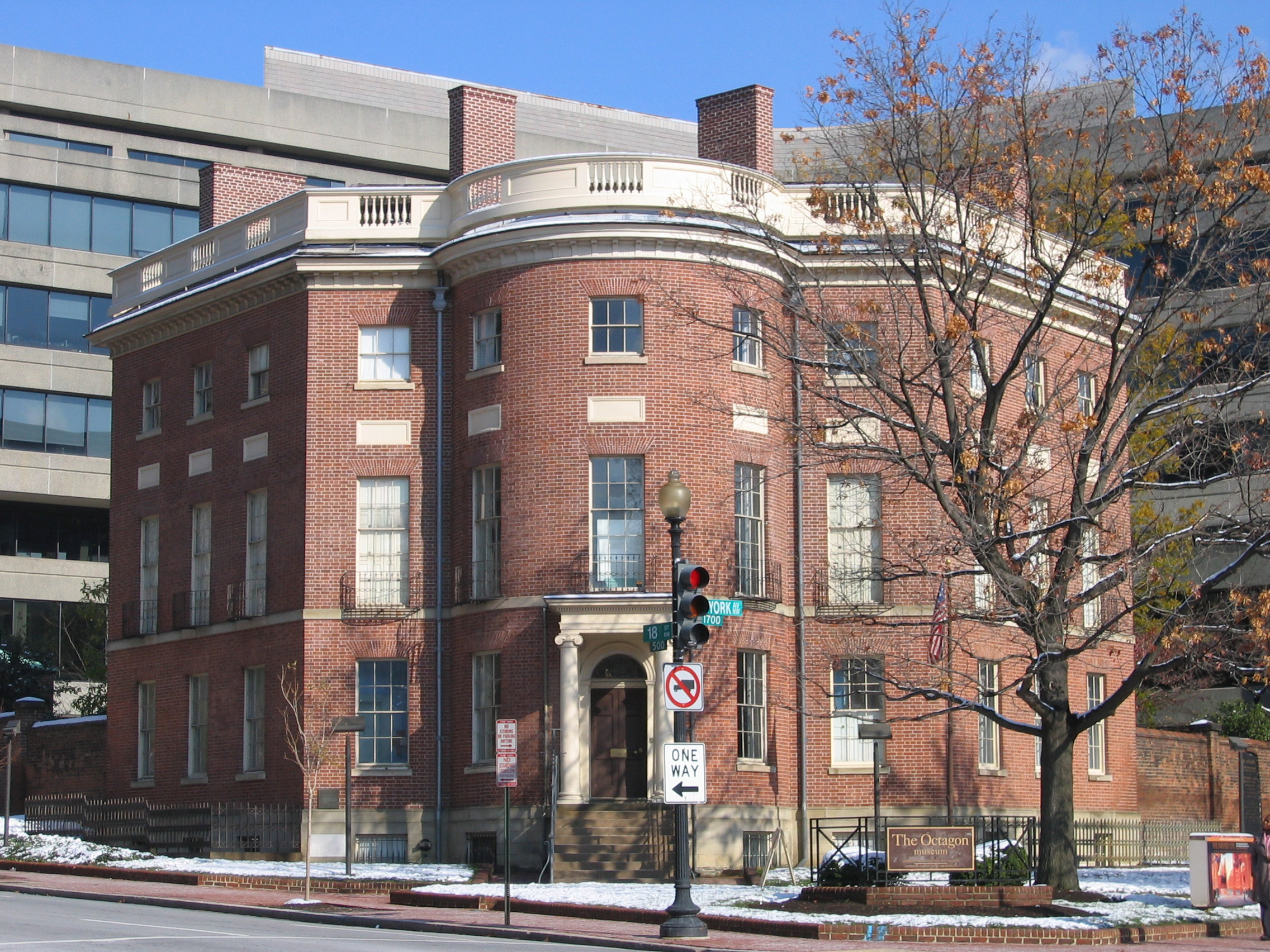 The Octagon House in Washington, D.C., built in 1800, is owned by the American Institute of Architects. Built in 1800, the Octagon house in Washington, D.C., was originally owned by Colonel John Tayloe. After the White house was burned in the war of 1812, the Octagon became the temporary home of president James Madison and his wife Dolley. It was sold from the Tayloe family in 1855, and became a makeshift hospital during the Civil war.